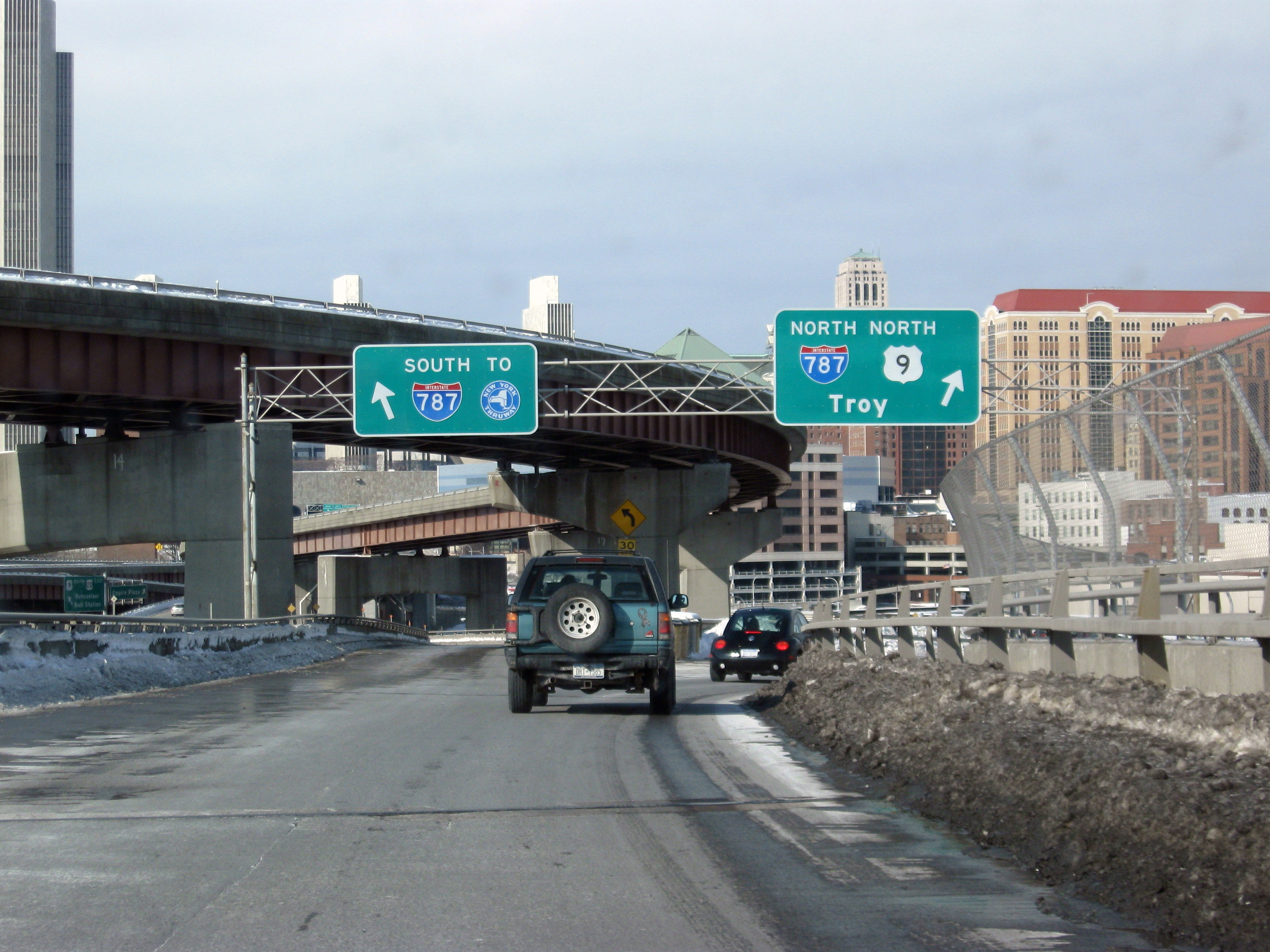 The beginning of US 9's northbound overlap with Interstate 787 from the Dunn Memorial Bridge in Albany, New York.